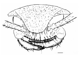 Figure 2. Drawings of Boltonimecia canadensis. B) Head, anterodorsal view (reconstruction). Scale line = 0.1 mm